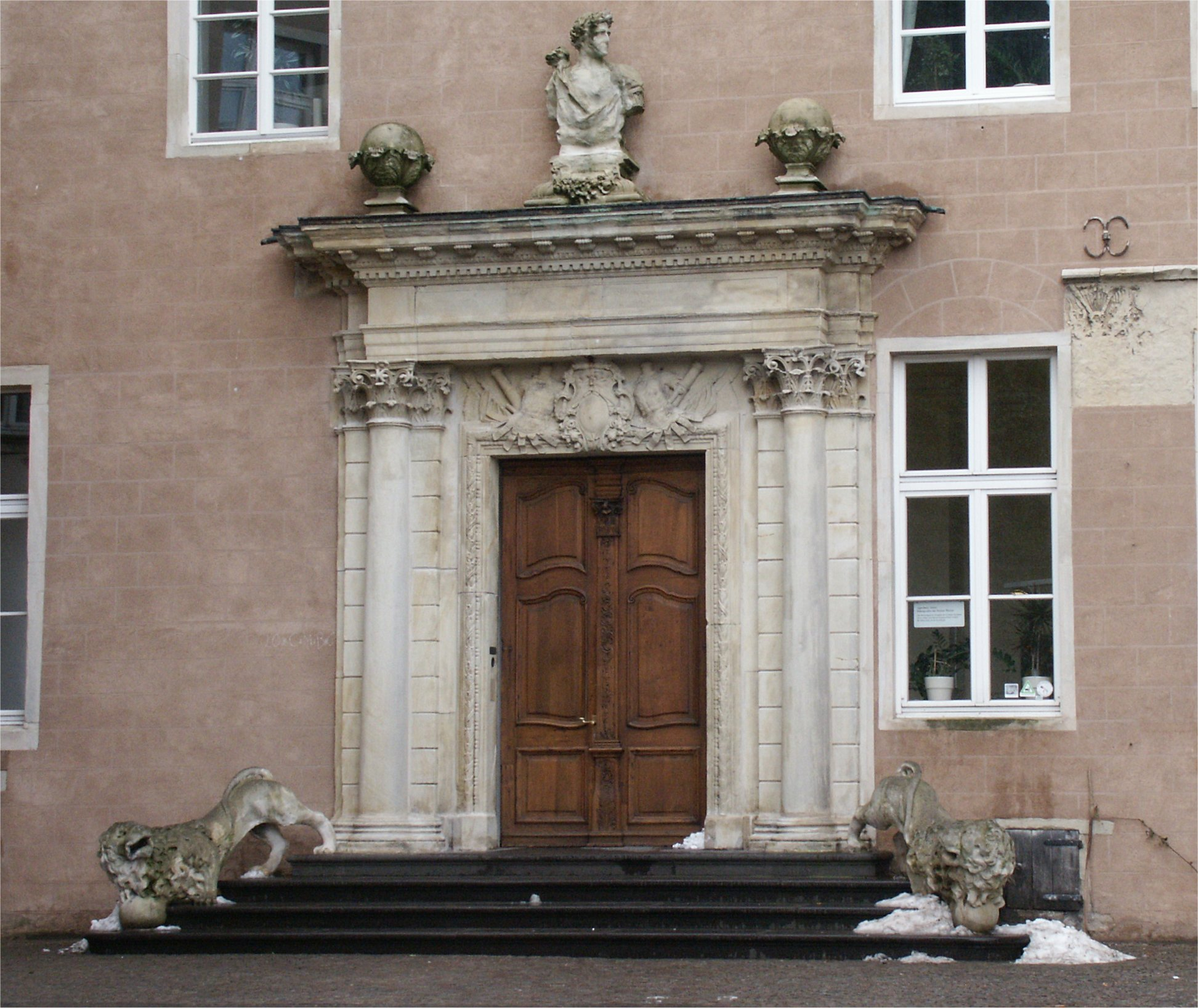 Castle of Gemen, portal